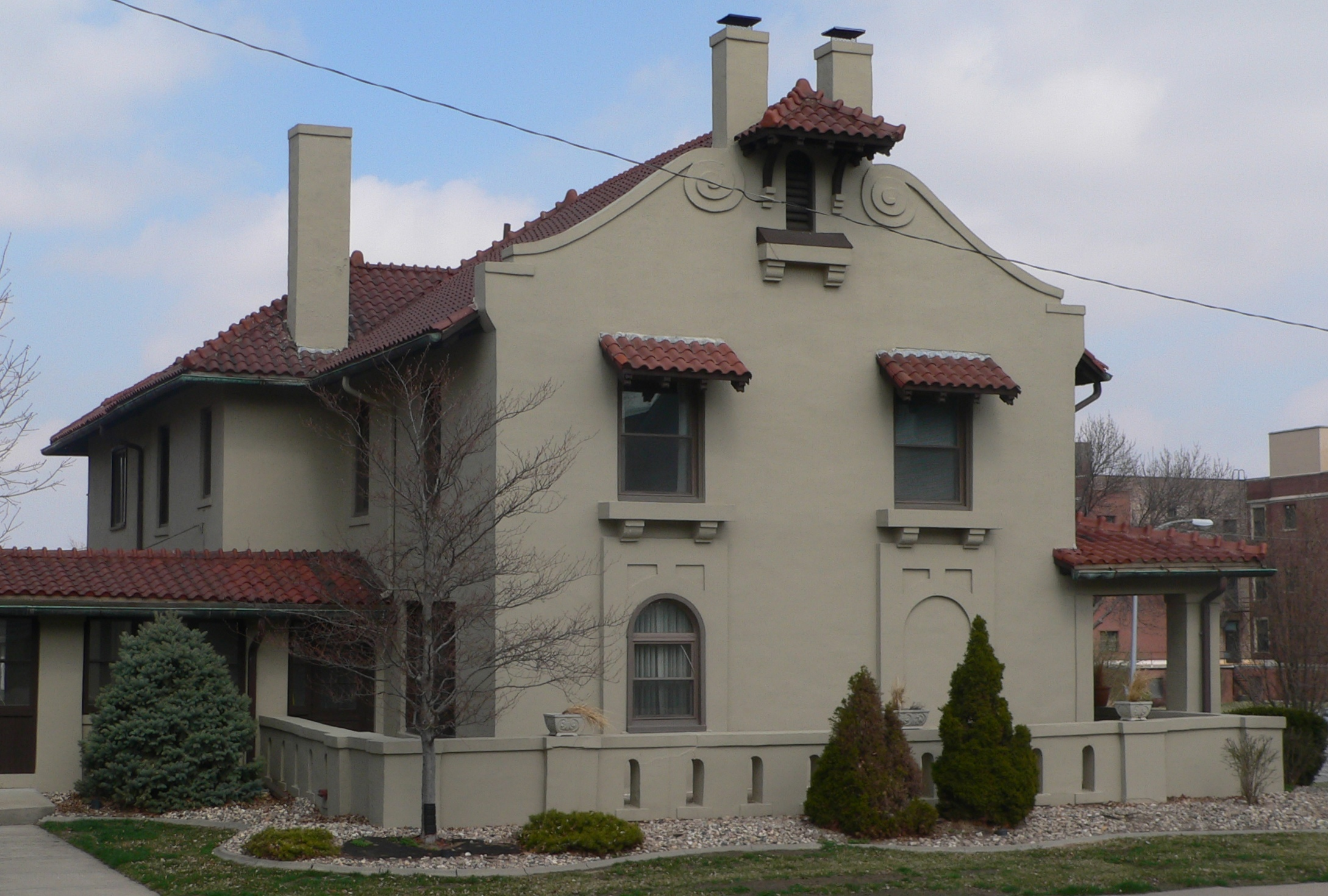 Rectory of St. Frances Cabrini Church, located at 1335 S. 10th Street in Omaha, Nebraska; seen from the southwest. The church is the former St. Philomena's Cathedral.